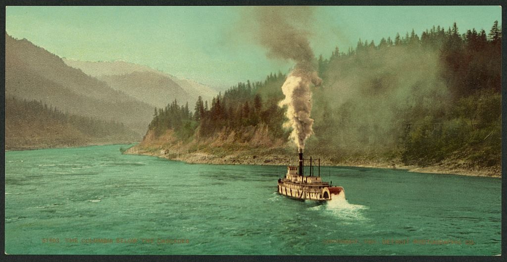 Columbia River below the Cascades, looking west (downriver) showing sternwheeler, probably the Bailey Gatzert